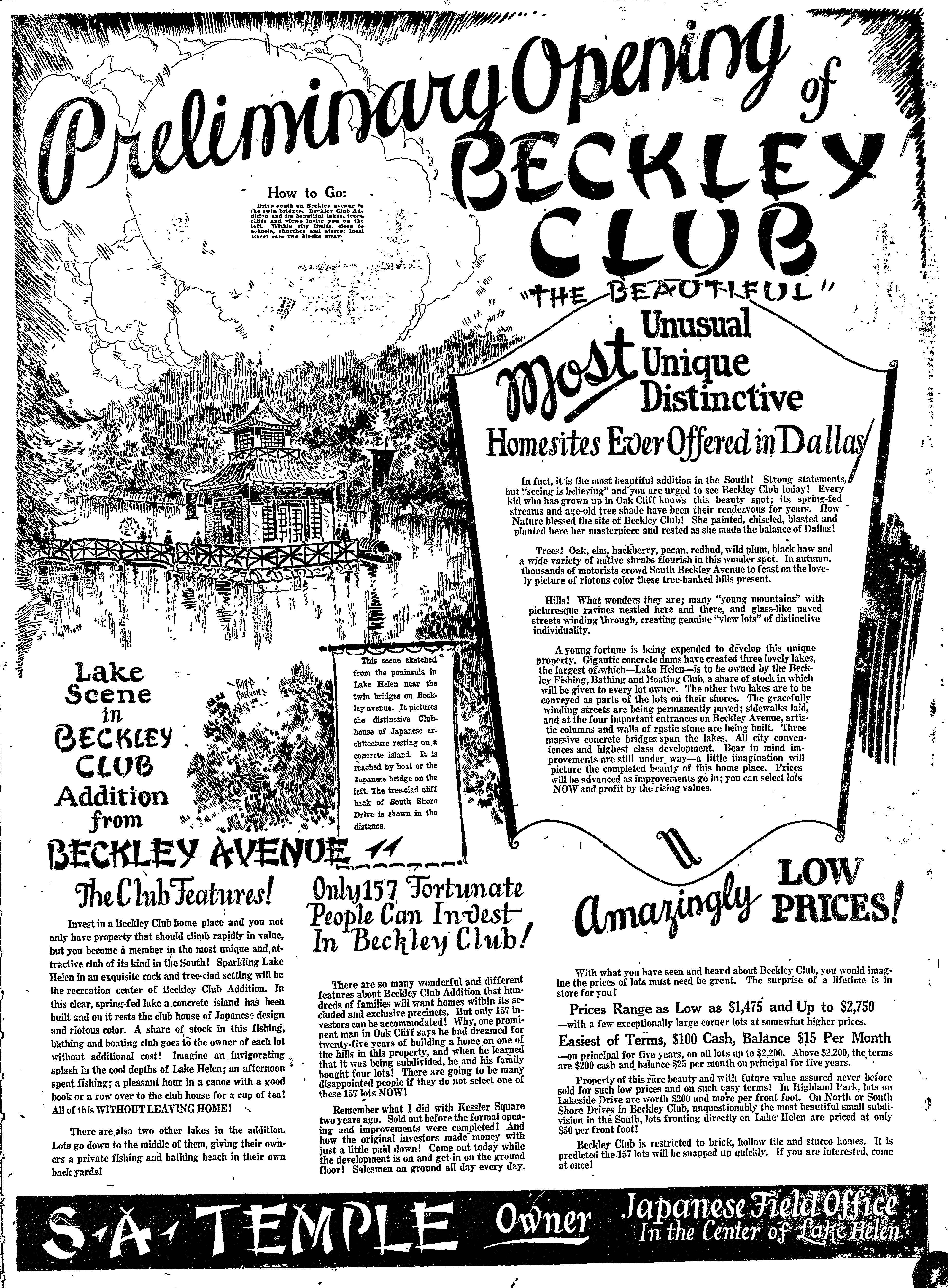 Advertisement of Beckley Club Estates